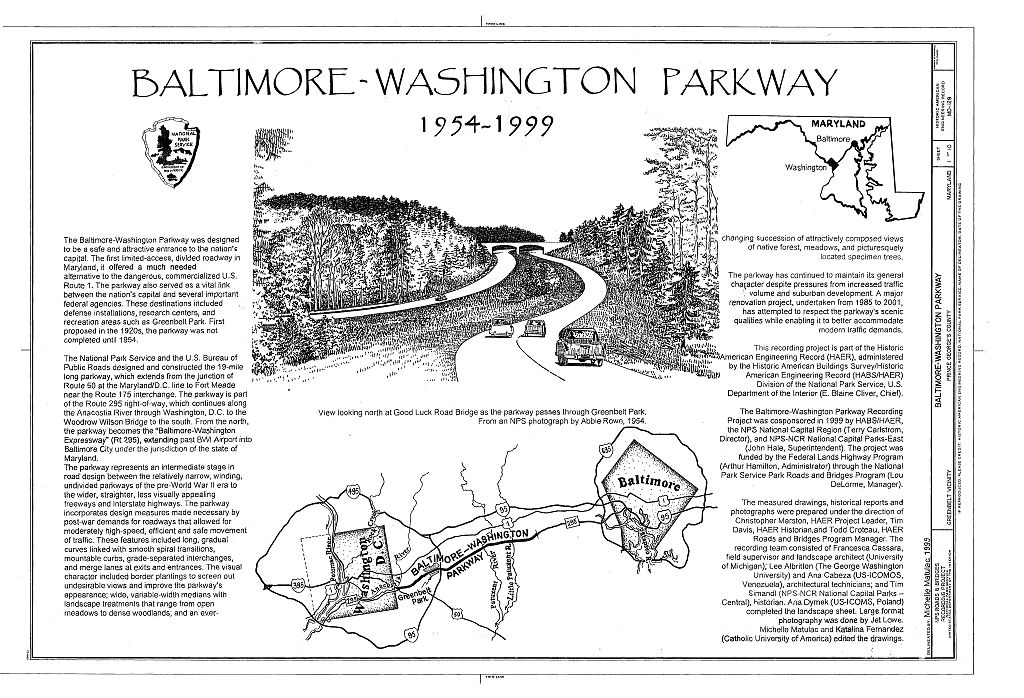 Significance: The federal section of the Baltimore-Washington Parkway was constructed to provide a dignified entrance to the nation's capital. The parkway also provided a new traffic artery that relieved congestion on U.S. Route 1 (Baltimore-Washington Boulevard). The parkway was constructed to connect federal installations, including Fort George Meade and the Beltsville Agricultural Research Center (USDA), to the District of Columbia. The parkway was considered a vital defense road during World War II and the Cold War. Unprocessed Field note material exists for this structure: N745 Survey number: HAER MD-129 Building/structure dates: 1942-1954 Initial Construction Building/structure dates: 1957 Subsequent Work Building/structure dates: 1962 Subsequent Work Building/structure dates: 1990-1996 Subsequent Work Building/structure dates: ca. 2000 Subsequent Work